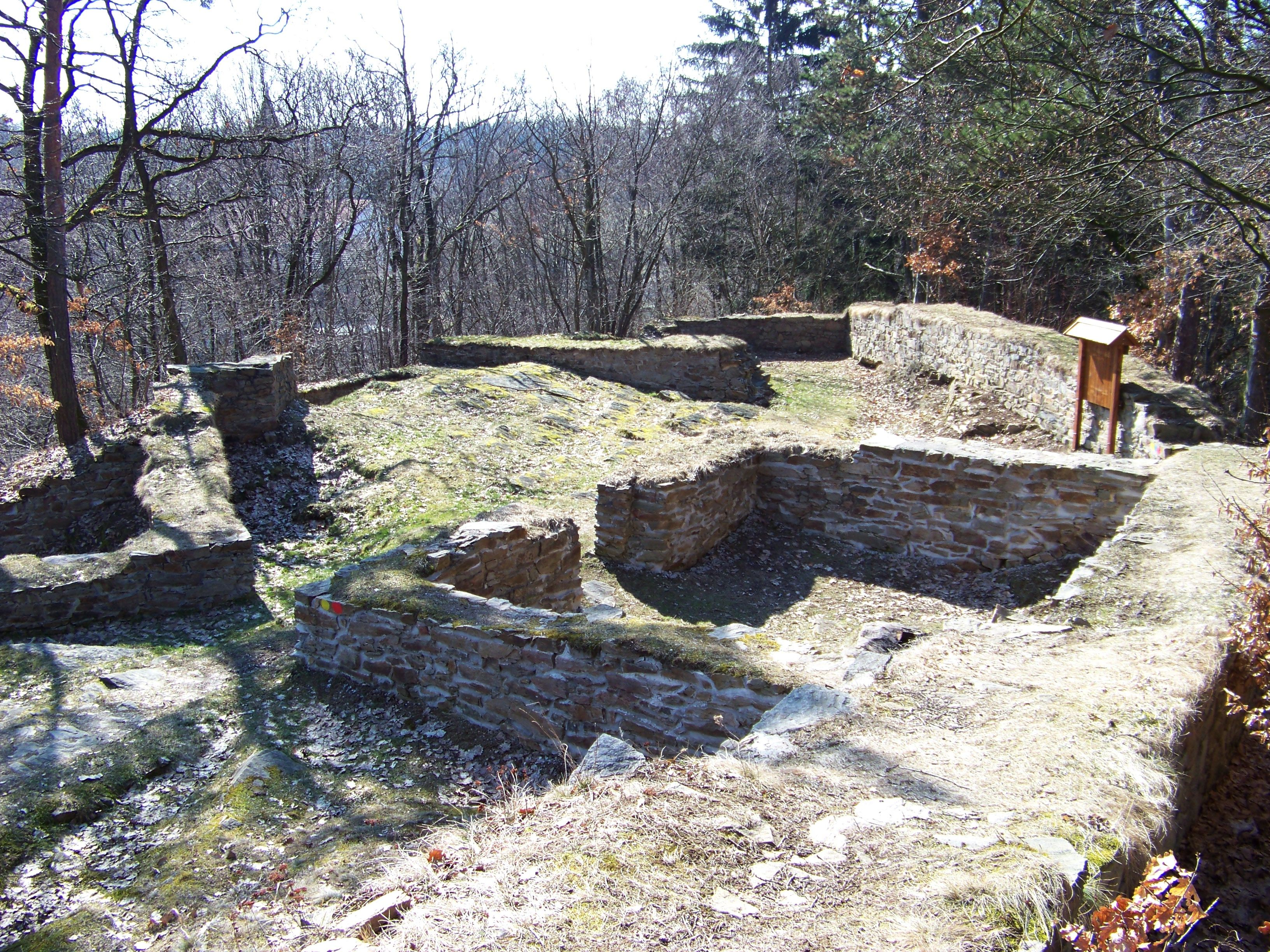 Chlístovice, Kutná Hora District, Central Bohemian Region, the Czech Republic. Sion Castle.